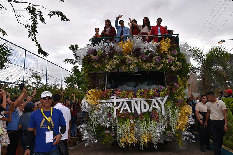 Float of Ang Panday, one of the 8 entries of the 2017 Metro Manila Film Festival (MMFF) at the Parade of the Stars